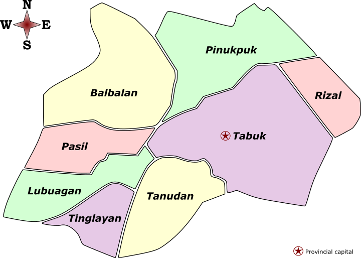 Labelled colored map of the province of Kalinga, showing its component city and municipalities.